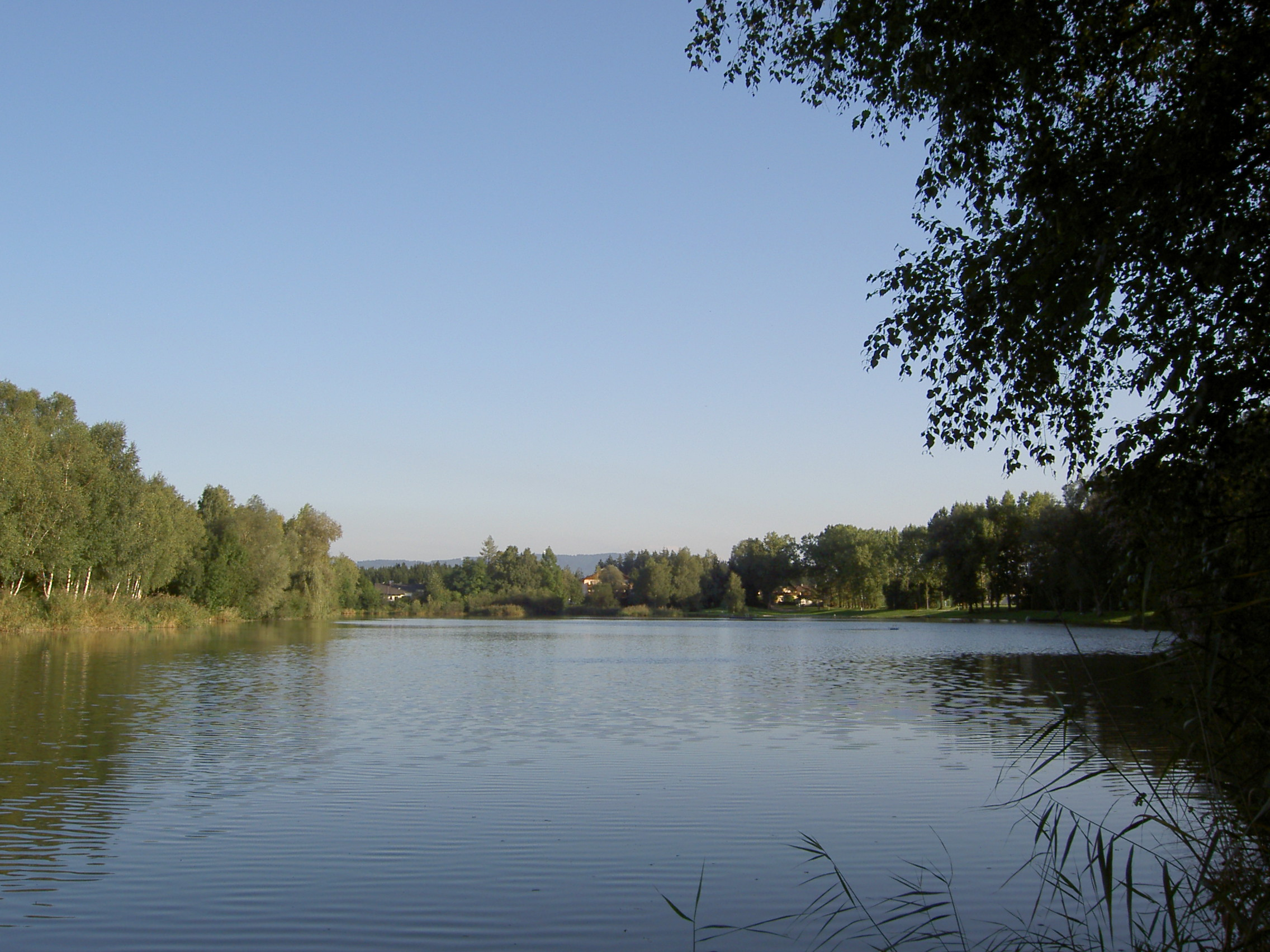 Lake Bürmoos in September